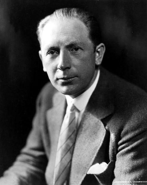 F. W. Murnau circa 1920-1930